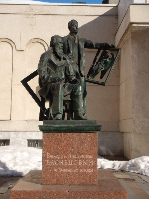 Monument for brothers Victor and Apollinarij Vasnetsov in Kirov, Kirov region